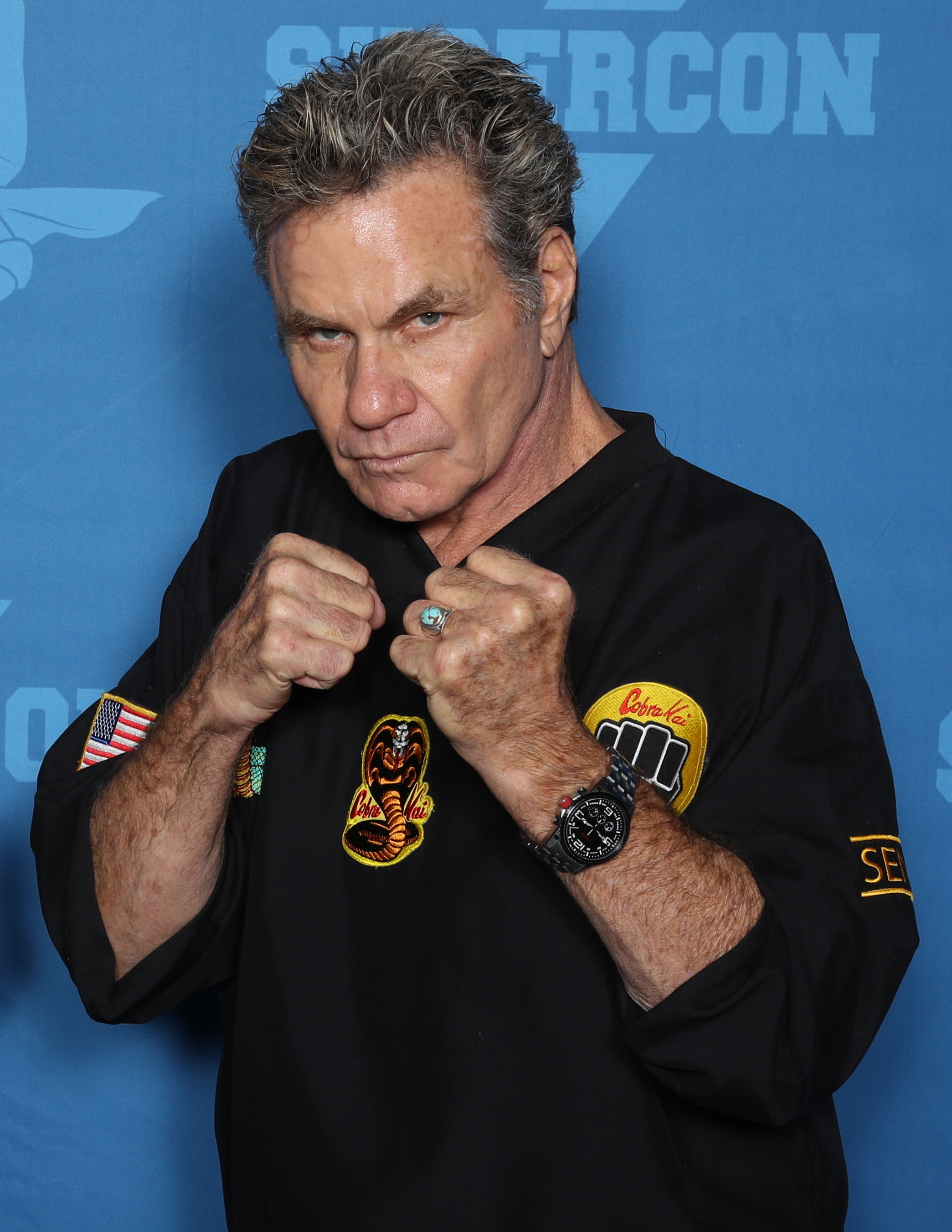 Martin Kove at the Louisville Supercon in 2018